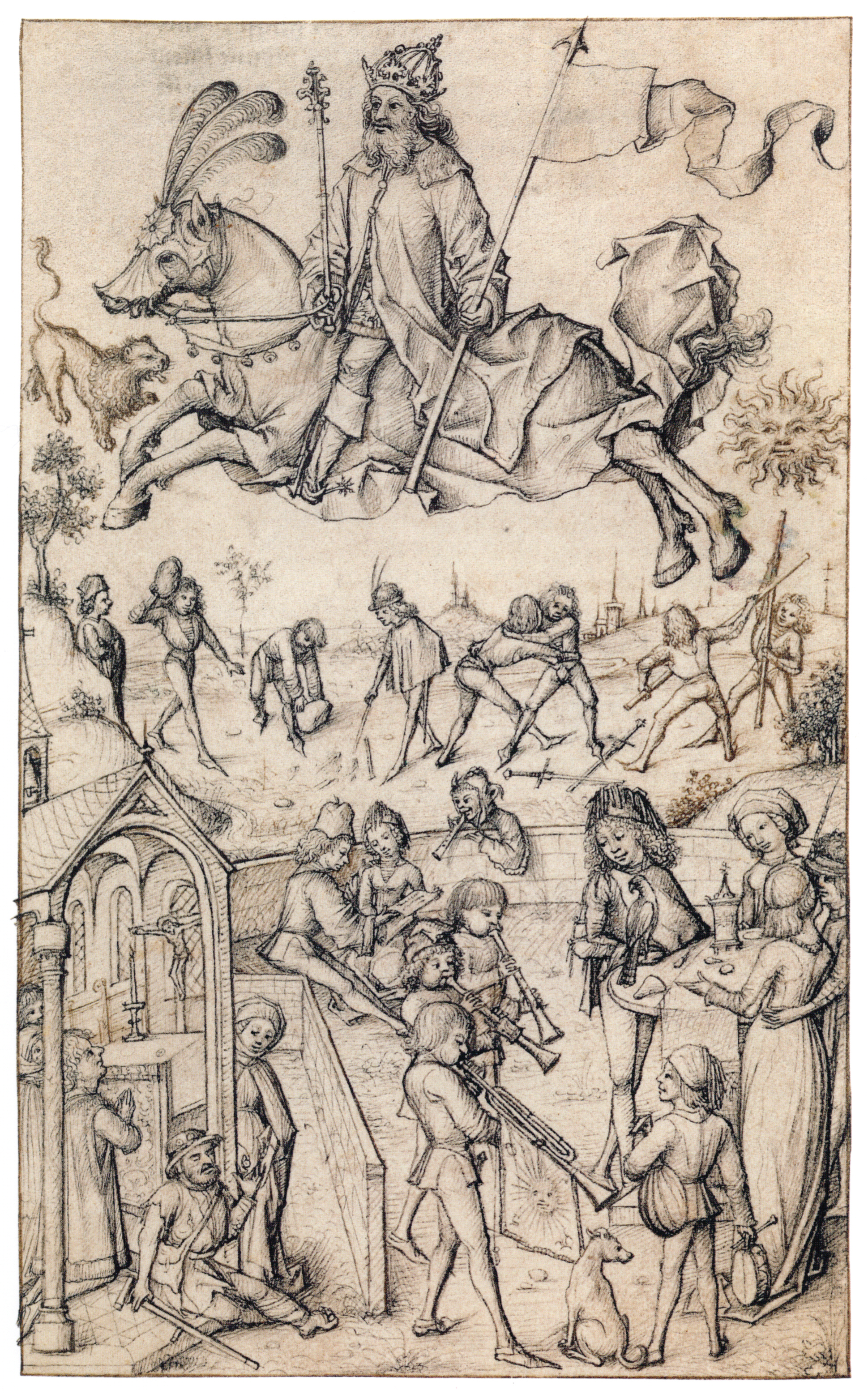 Mittelalterliches Hausbuch von Schloss Wolfegg Fol. 14r: Sol und seine Kinder Master of the Housebook (fl. between 1475 and 1500 date QS:P,+1500–00–00T00:00:00Z/6,P1319,+1475–00–00T00:00:00Z/9,P1326,+1500–00–00T00:00:00Z/9) Alternative names Master of the House-Book, Master of the Amsterdam Cabinet, Master of 1480DescriptionGerman painter, draughtsman and engraverDate of birth/death 1450 1500Work periodbetween 1475 and 1500 date QS:P,+1500-00-00T00:00:00Z/6,P1319,+1475-00-00T00:00:00Z/9,P1326,+1500-00-00T00:00:00Z/9Work location Middle Rhine, Heidelberg (?), Mainz (?)Authority control : Q460300 VIAF: 79397502 ULAN: 500002780 WGA: MASTER of the Housebook GND: 118546961 RKD: 115714 creator QS:P170,Q460300